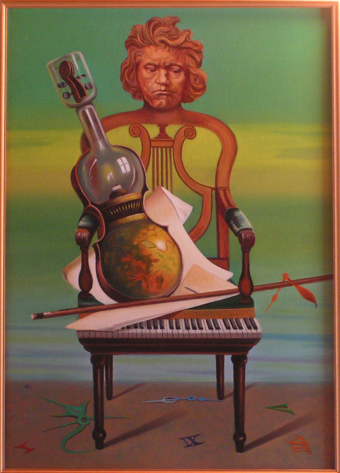 Work of the Italian painter William Girometti, title: "Space and time (in homage to L.V. Beethoven)", 1974, oil on canvas, cm. 50x70 - owned by his daughter.